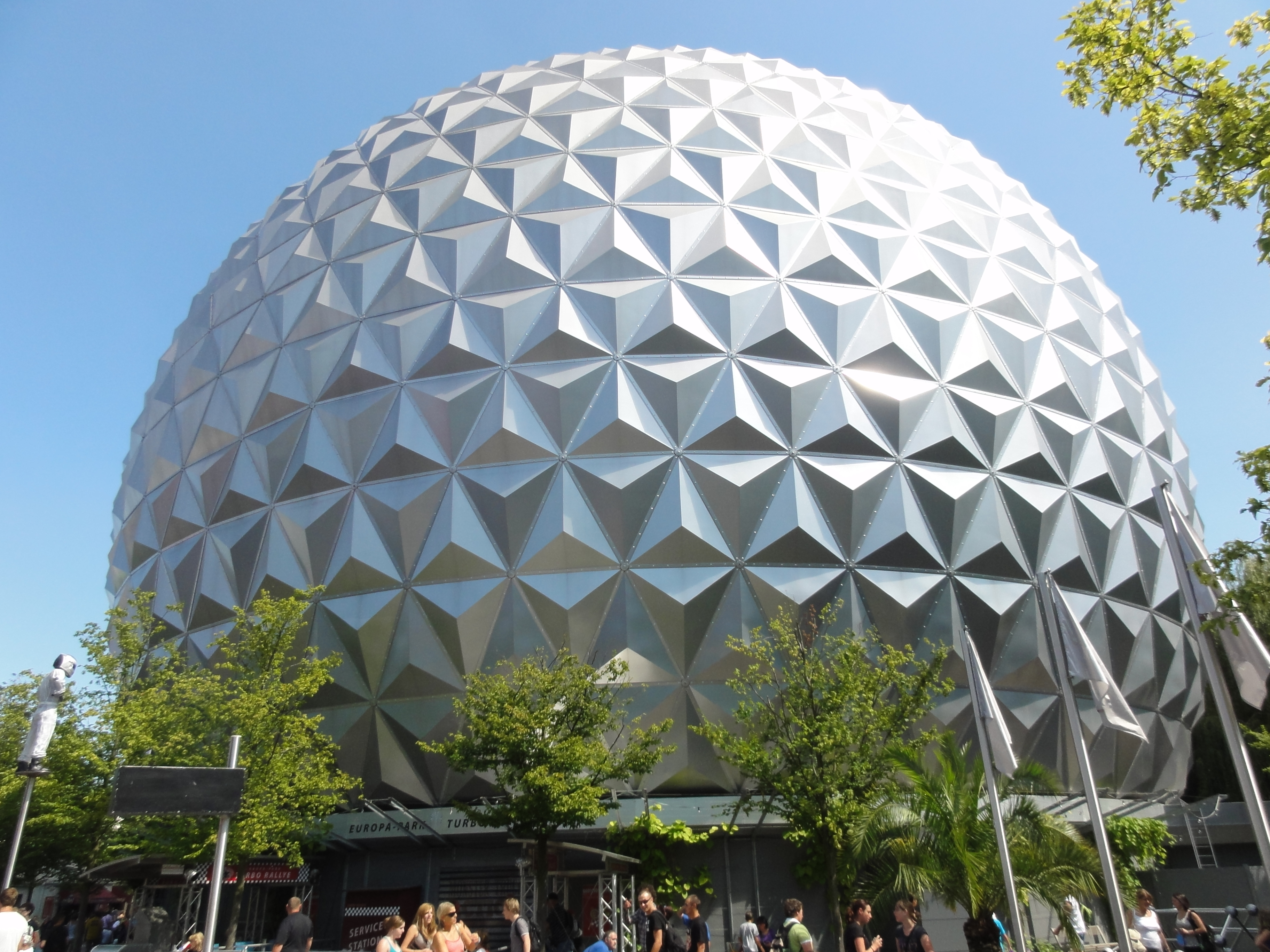 Eurosat, Europa-Park, Rust, Baden-Württemberg, Germany.